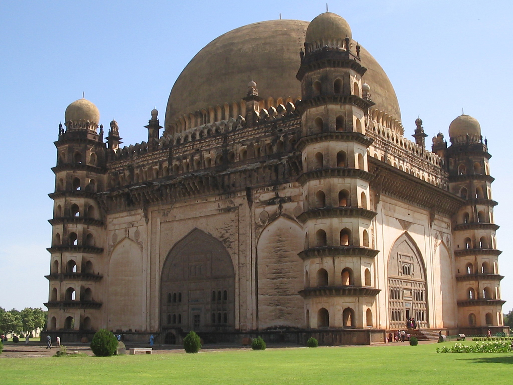 Gol Gumbaz - photo taken during a family trip to Bijapur